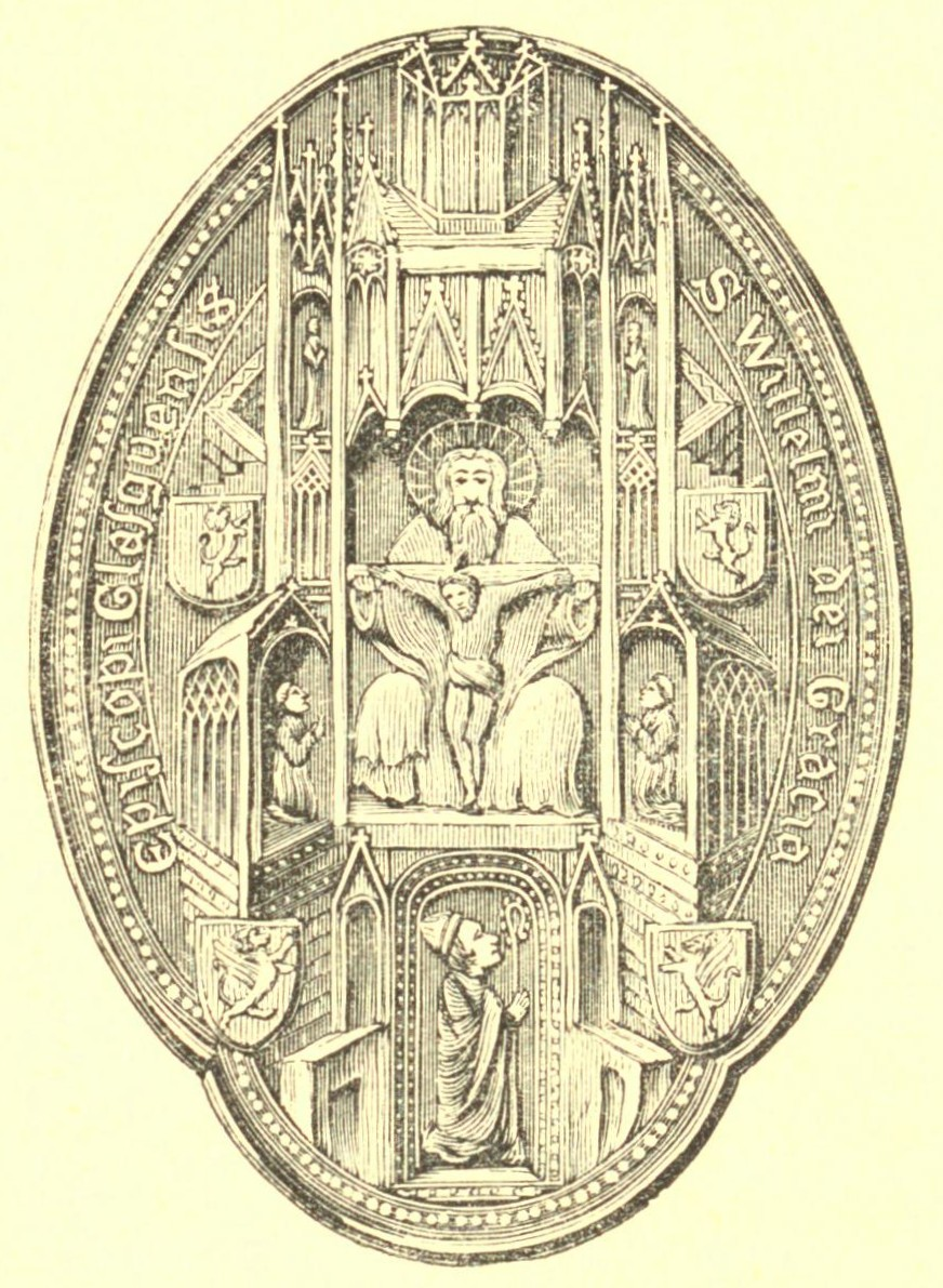 Taken from: Scotichronicon Vol. II, Glasgow, 1867, Author: Gordon, JFS